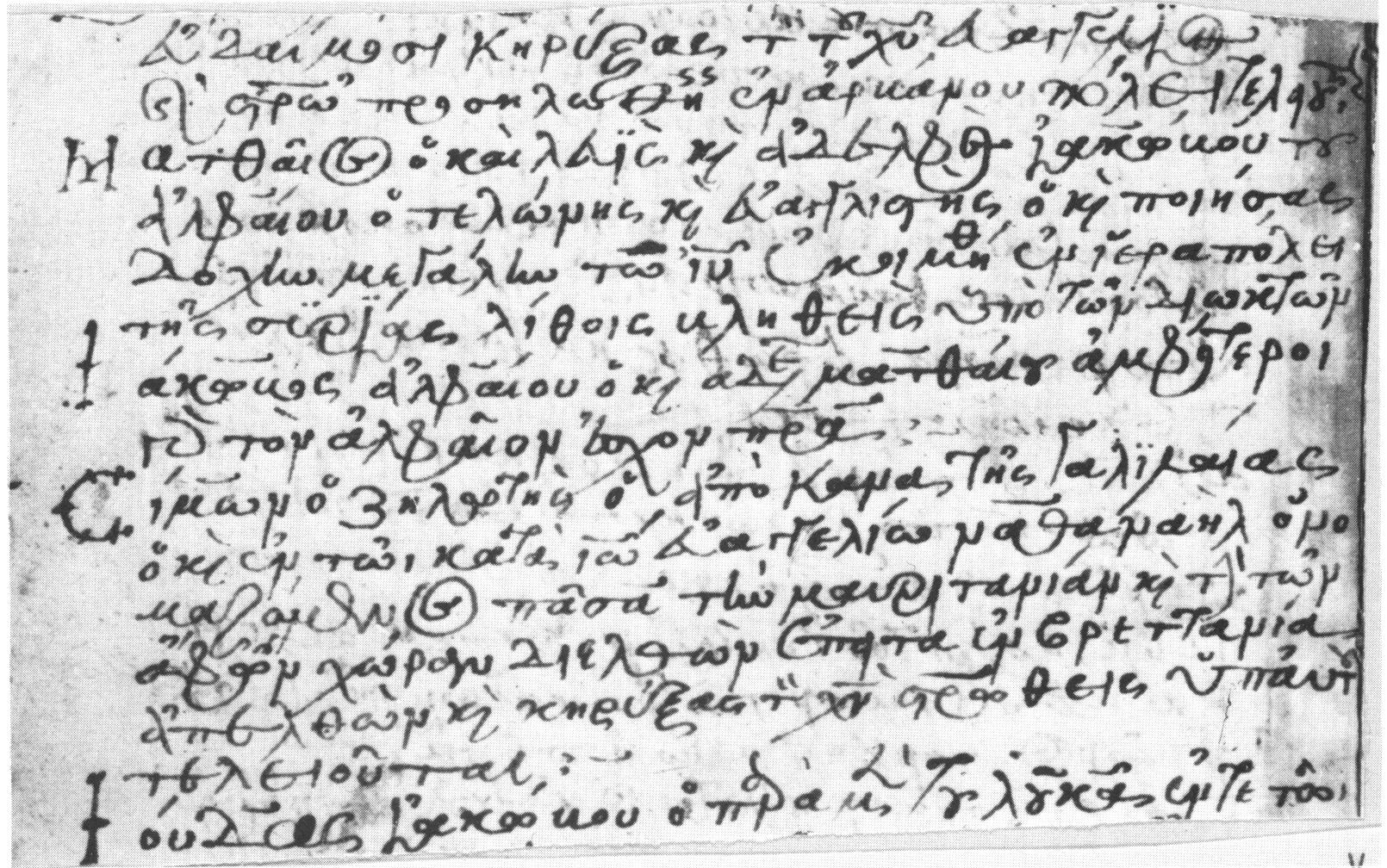 A Greek text written by Cyriacus of Ancona: Berlin, Staatsbibliothek, Ms. Gr. quarto 89, fol. 22v.